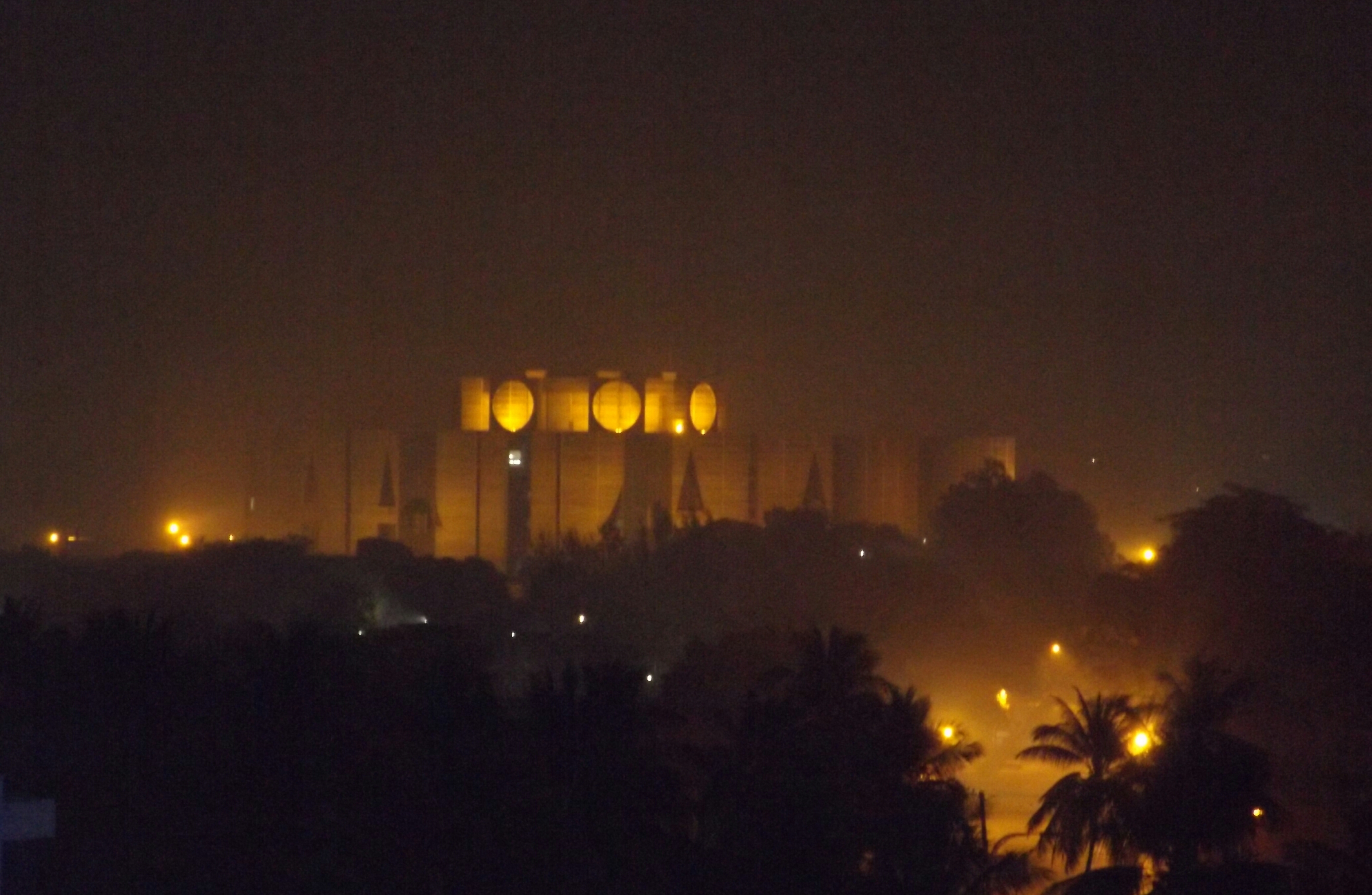 National assembly of Bangladesh night view from west.